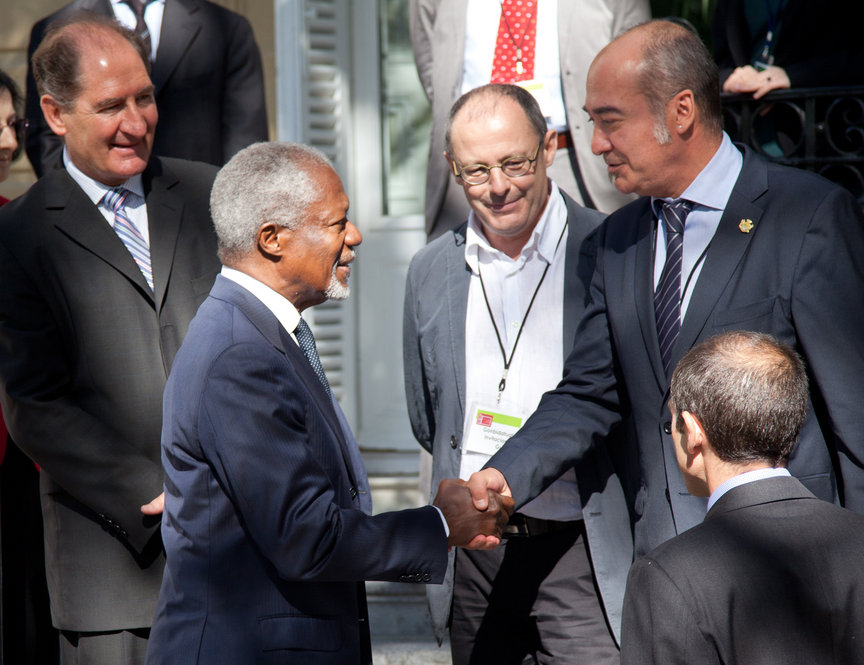 Martin Garitano (right) waving Kofi Annan (left). In the background, Brian Currin (left) and Juan Karlos Izagirre (center).